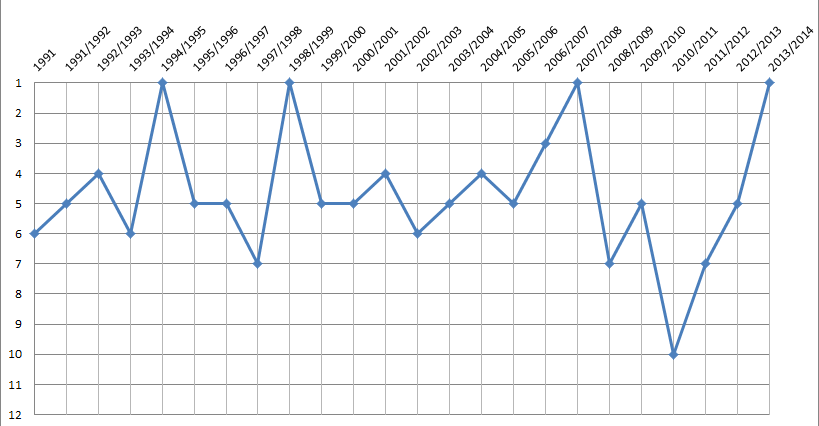 Graph of Aalborg BK's final league positions in Superligaen since its creation.